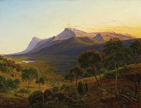 Mount William as from Mount Dryden in the Grampians, Victoria, oil on canvas, by Eugene von Guerard